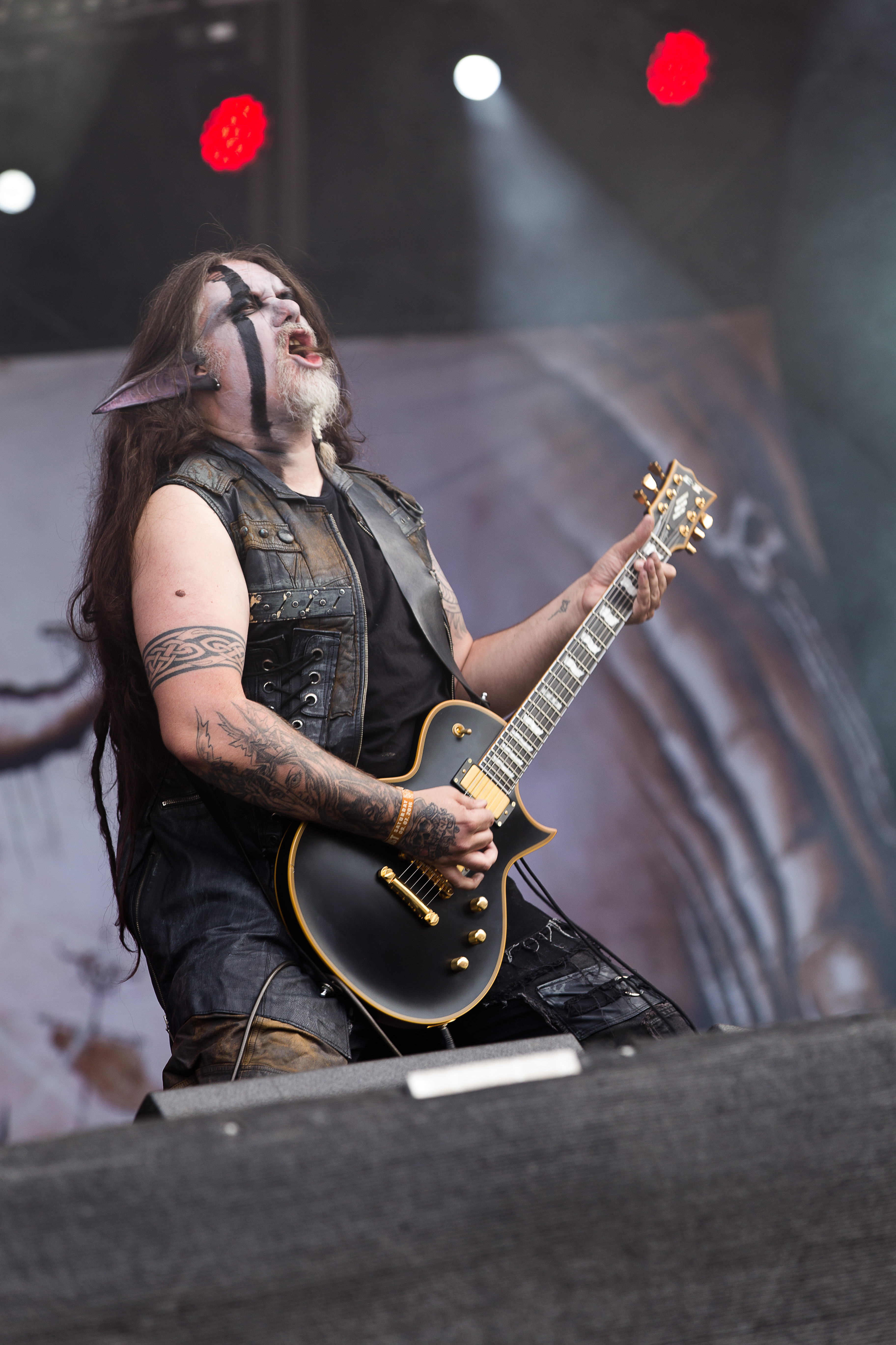 The Finnish folk metal band Finntroll at the Rockharz Open Air 2016 in Ballenstedt/Germany.